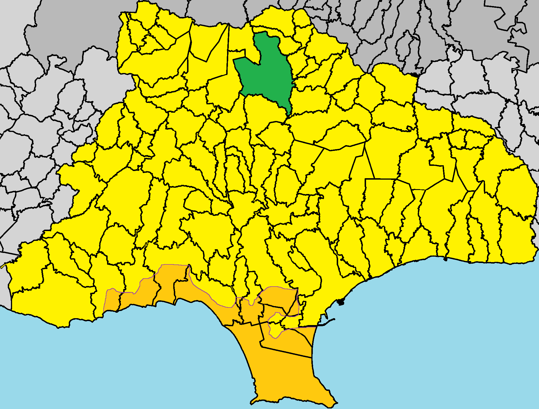 Pelendri in Limassol District.